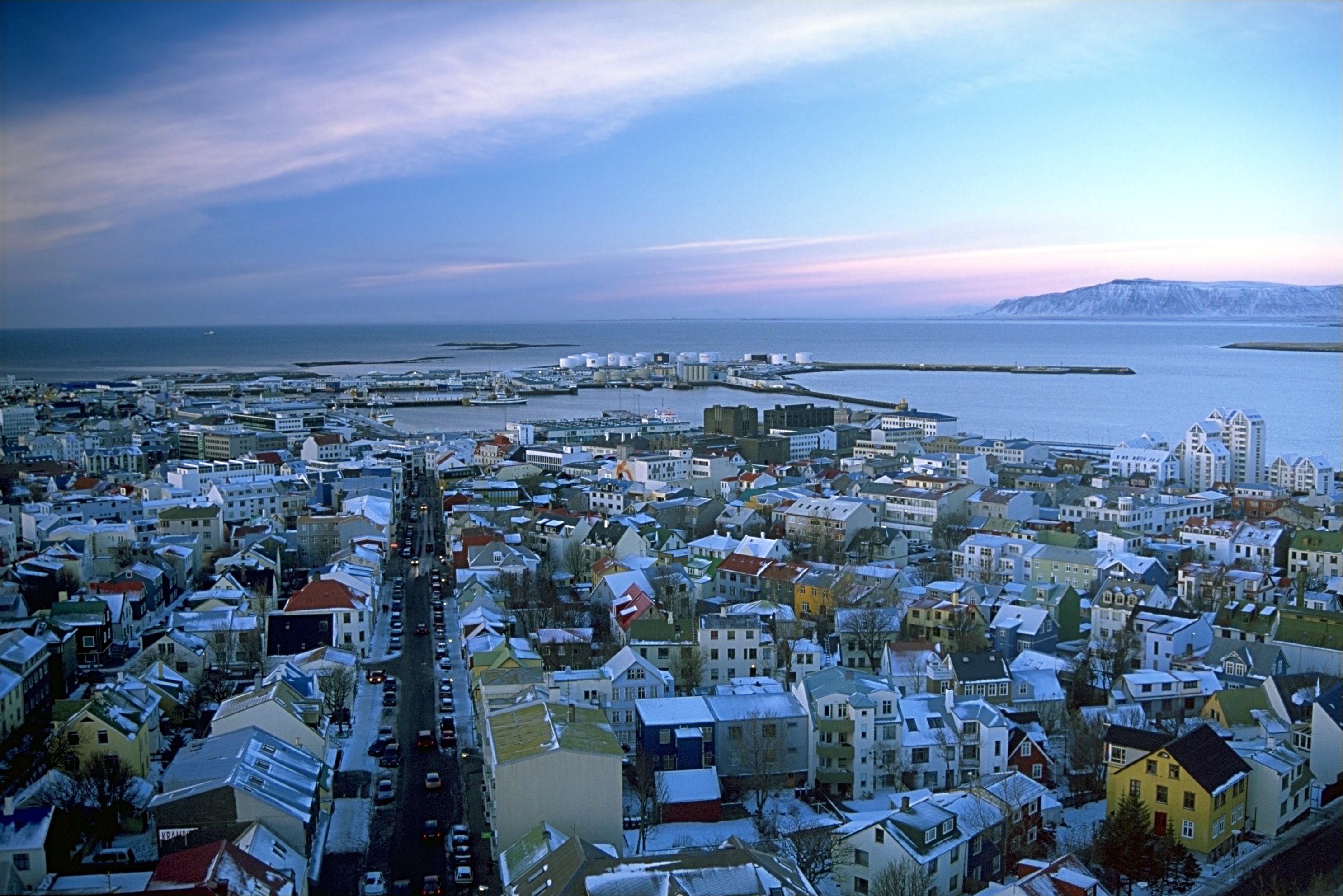 View of Reykjavík from the tower of Hallgrímskirkja.